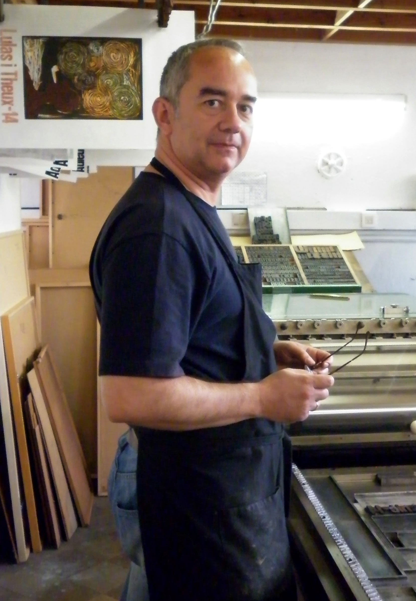 Slobodan Radojković, Born 1967, Niš, Serbia. Graphic and painter.